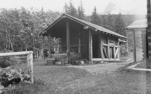 Belly River Ranger Station woodshed, Glacier National Park, Montana, USA